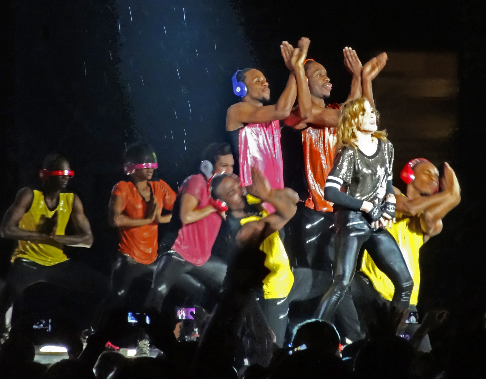 Madonna plays Yankee Stadium on 8 September 2012